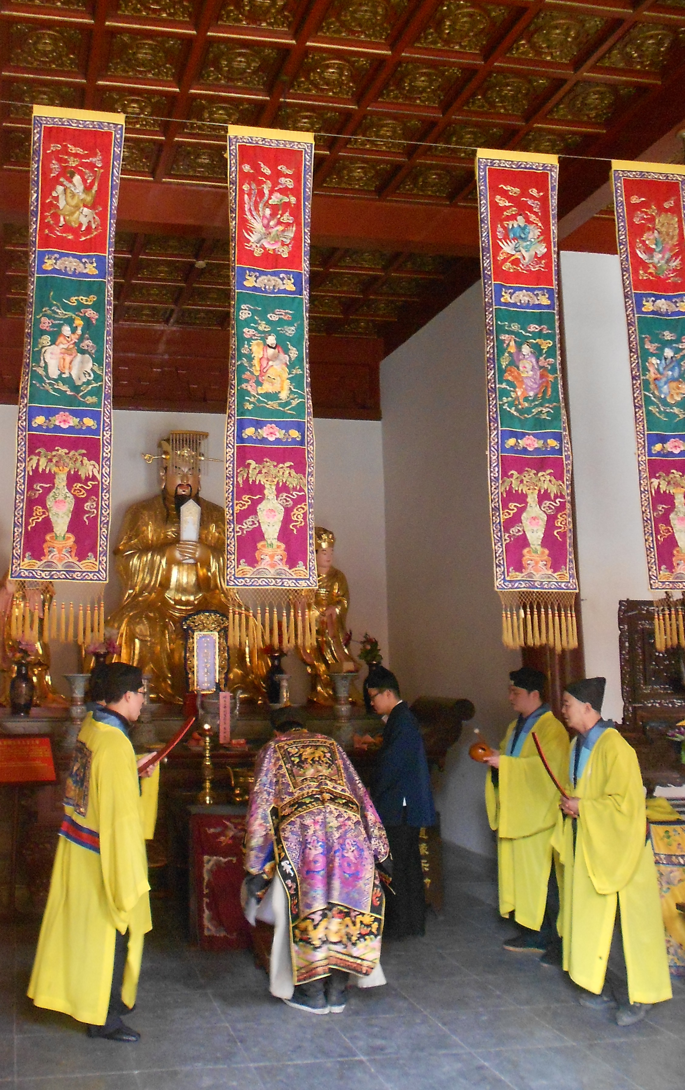 Qinciyangdian in Shanghai - religious service in the pavilion of the Jade Emperor